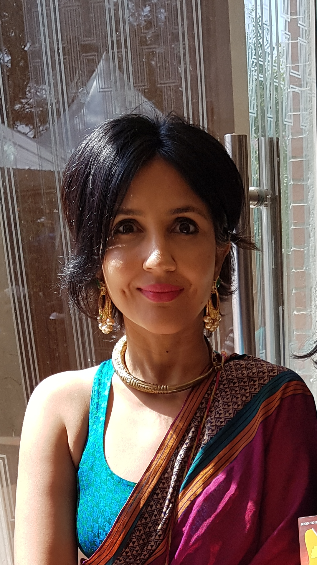 Anuja Chauhan at the Bangalore Literature Festival in December 2017